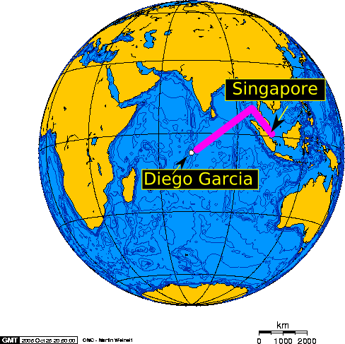 Route of MV Baffin Strait superimposed over an orthographic projection centred over Diego Garcia.